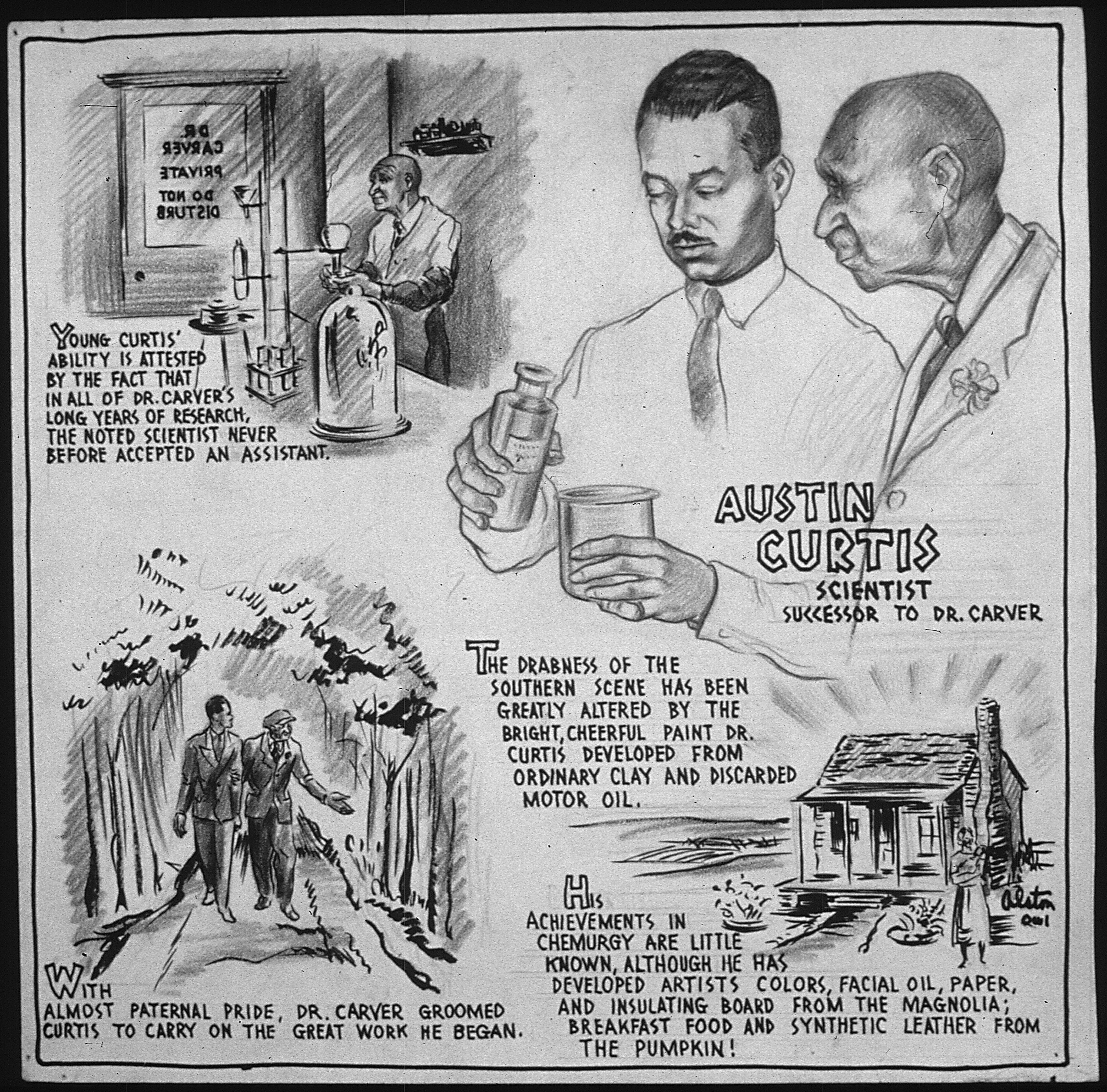 Scope and content: Austin Curtis - with biographical paragraphs.